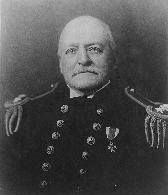 Removed caption read: Photo #: NH 41904 Rear Admiral George H. Wadleigh, USN, circa 1902